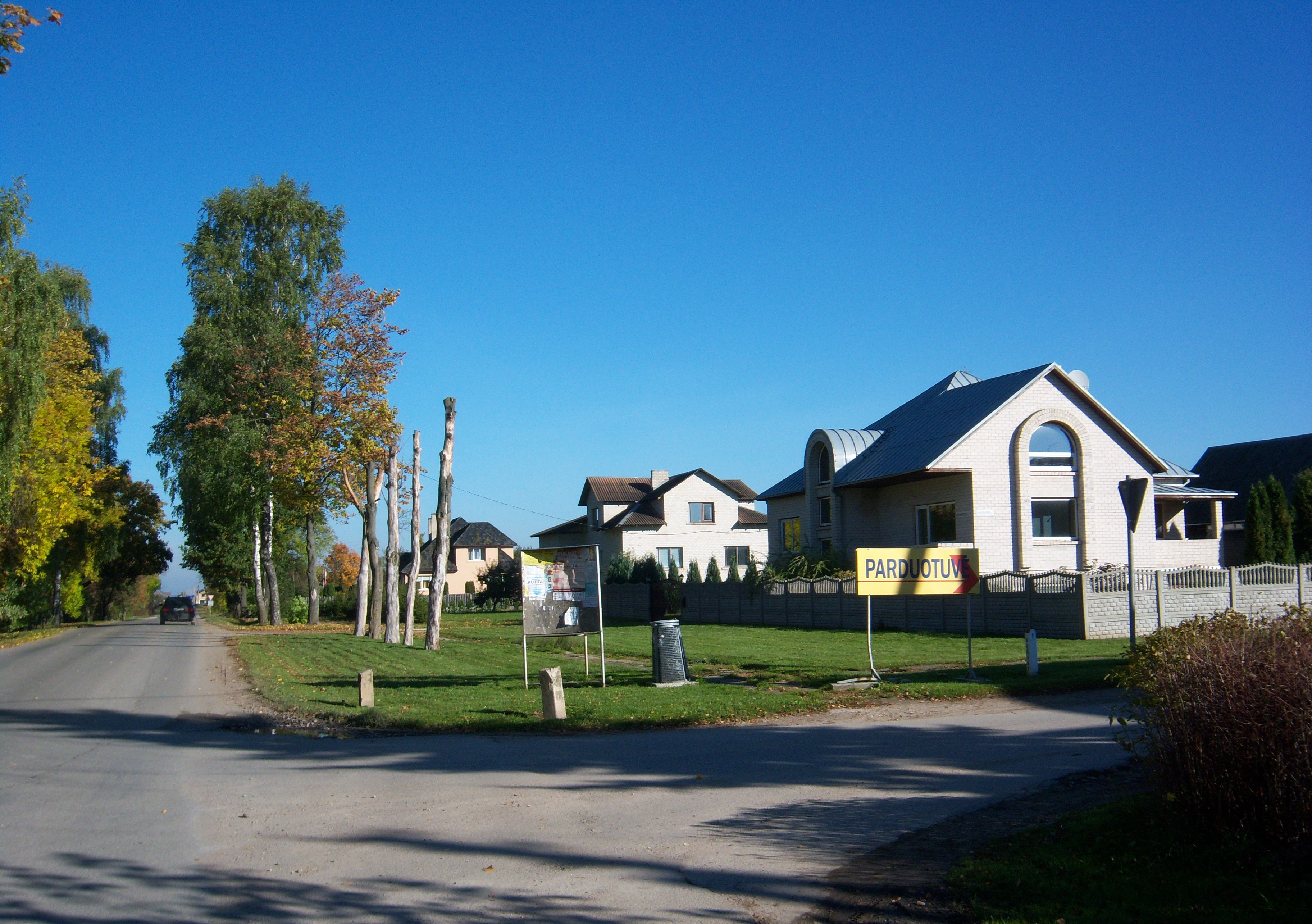 Patašinė, Marijampolė District, Lithuania